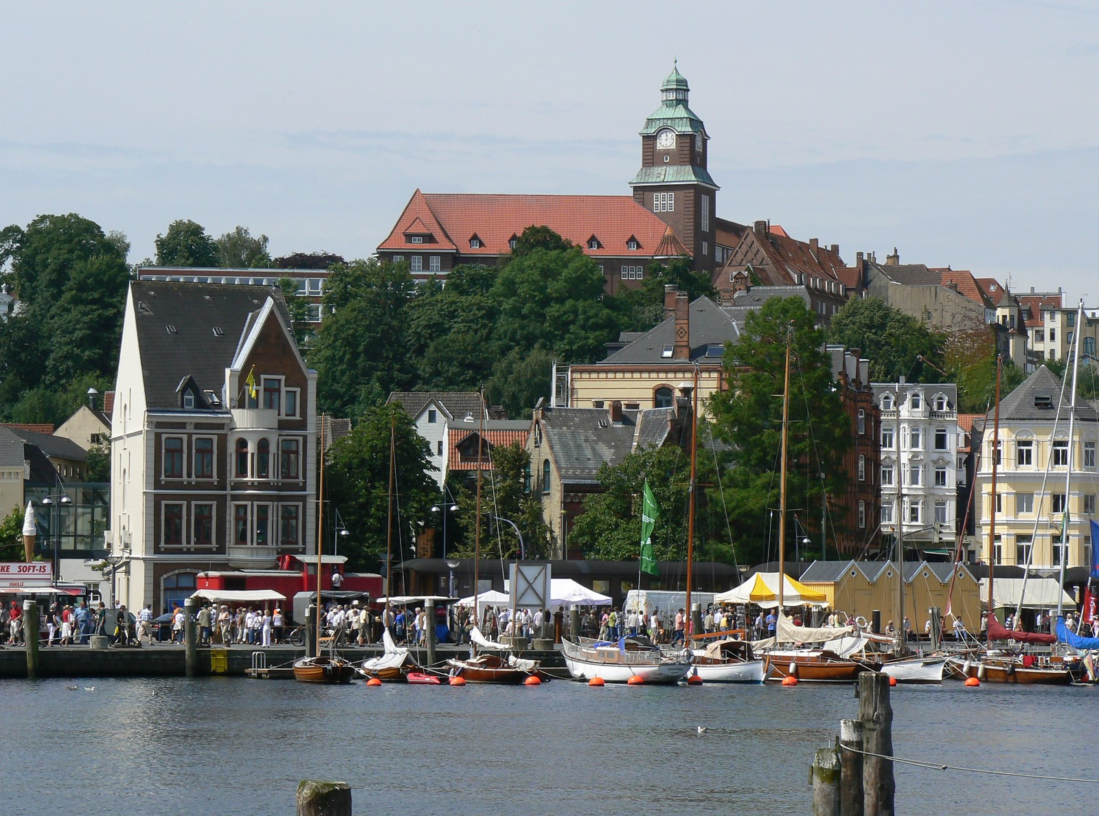 view over the harbor of Flensburg, Germany.